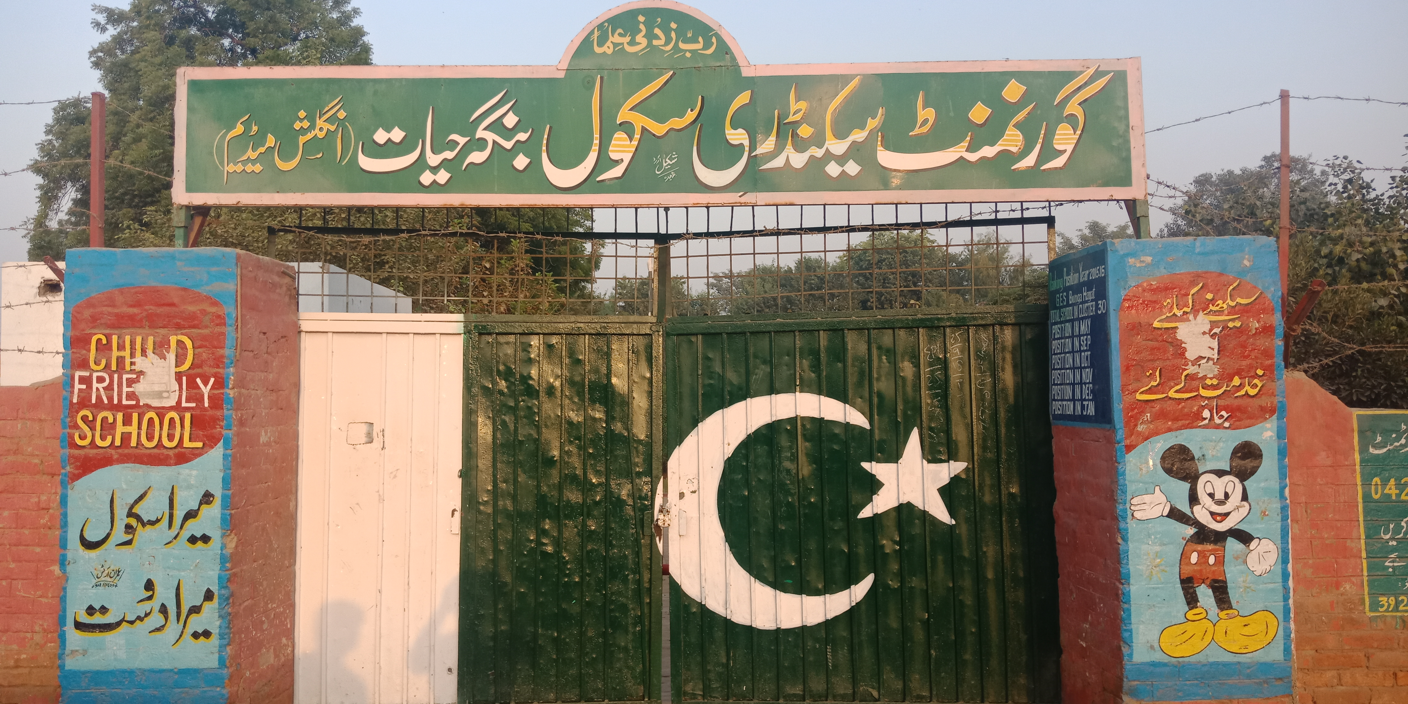 This is the oldest institute of Bunga Hayat, established in 1905.